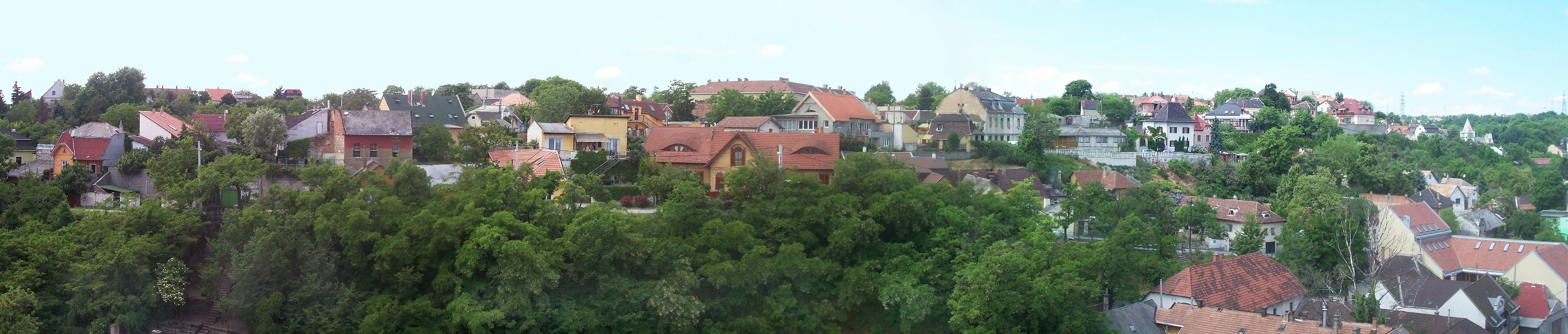 Part of district XXII. Budapest (Budafok)